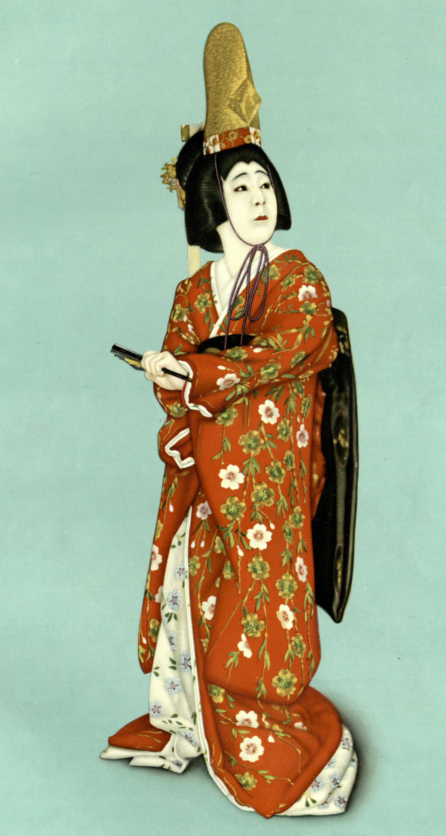 Kabuki actor „Kikugorō Onoe VI“ performs the dance Kyo Kanaoko Musume Dōjō-ji. The crimson robe shows embroidered cherry blossoms and willow leaves.